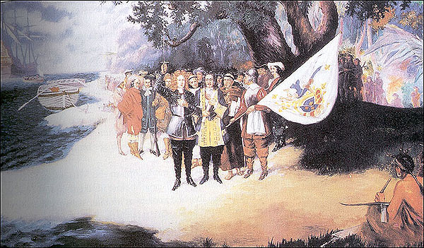 View of Pierre Lemoyne and company embarking on Ship Island in the Mississippi Sound